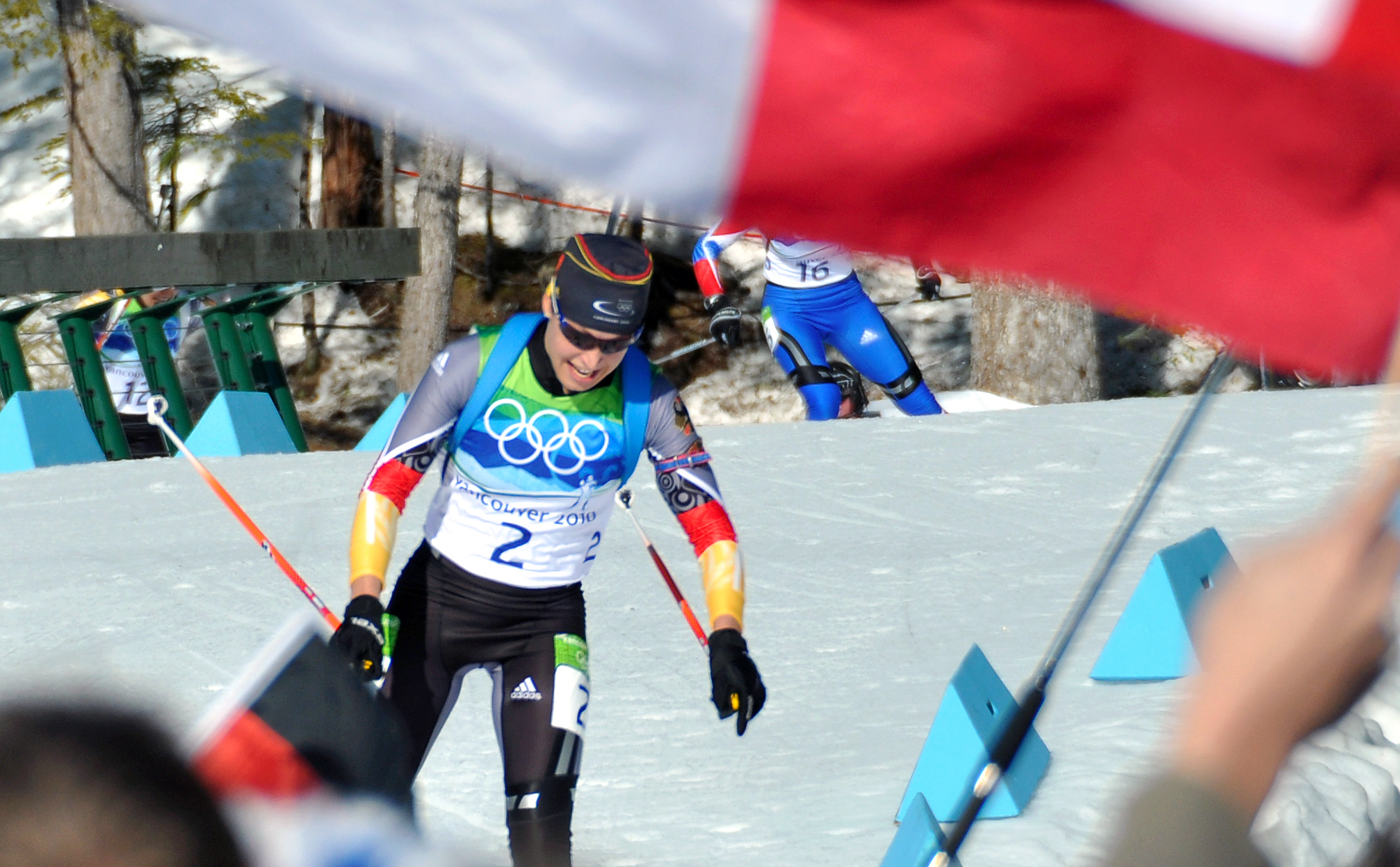 Magdalena Neuner crossed the bridge before the finish line, a Russian competitor in hot pursuit, before winning gold in the women's 12.5km mass start biathlon. Vancouver 2010 Winter Olympics Whistler Olympic Park Cropped from File:Neuner-Vancouver-MassStart.jpg